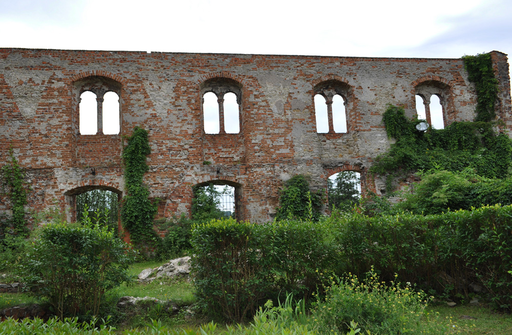 Cistercian abbey - Sulejów - Podklasztorze in Poland